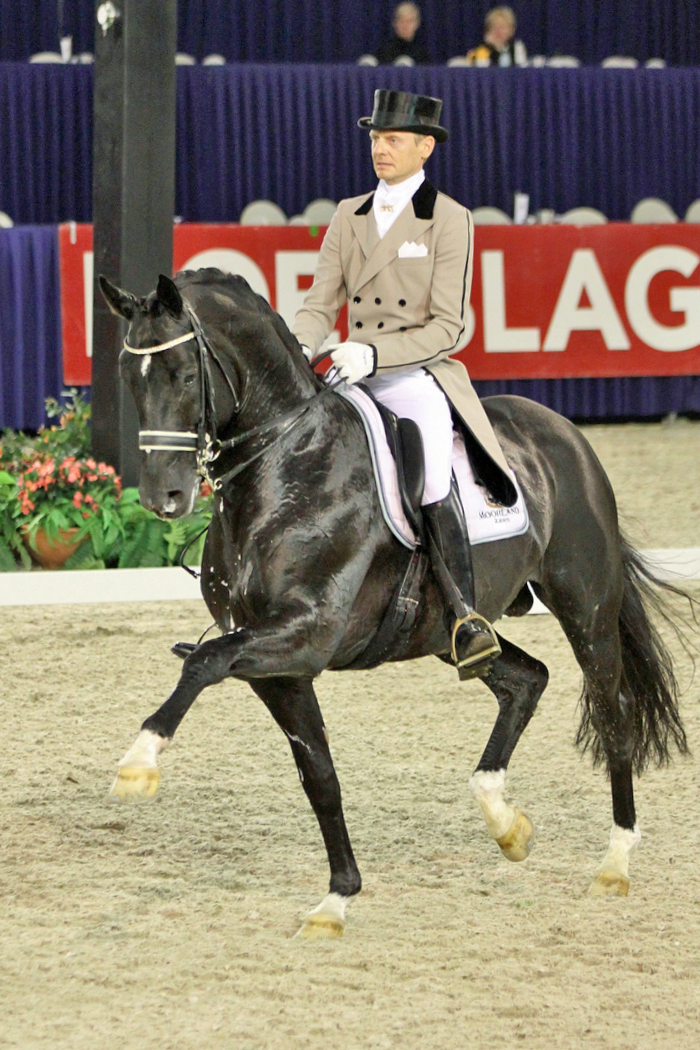 Totilas and Edward Gal at NIC Assen 2009